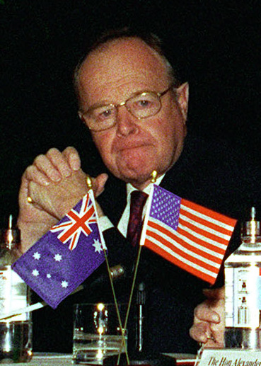 Secretary of Defense William S. Cohen (right) makes an opening statement during a joint press conference at the conclusion of the annual Australia-United States Ministerial Consultations in Sydney, Australia, on July 31, 1998. The release of the joint communiqué and announcement of a joint security declaration was presented at HMAS Watson, Sydney, Australia by the attending leaders, from left to right: Australian Minister of Defense Ian McLachlan, United States Secretary of State Madeleine Albright, Australian Minister for Foreign Affairs Alexander Downer, and Cohen. DoD photo by Helene C. Stikkel. (Released)